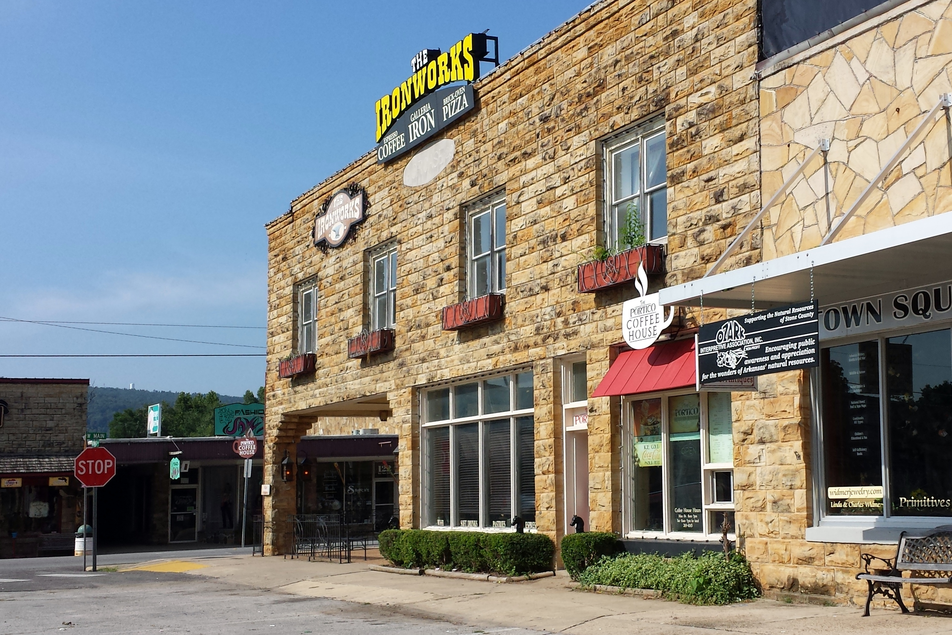 Hwy. 66 1928 office of county's first automobile dealership